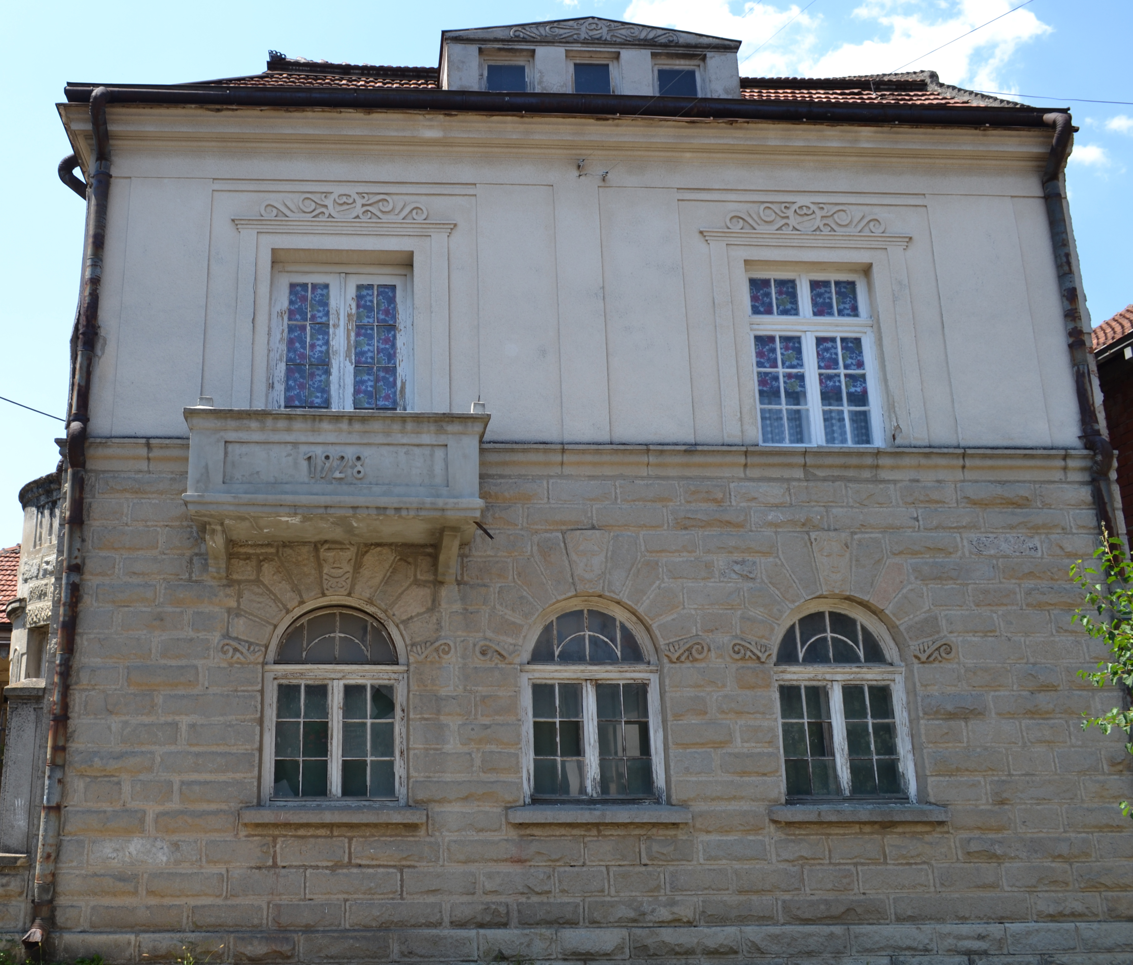 Кућа Димитрија ОН. Поповића